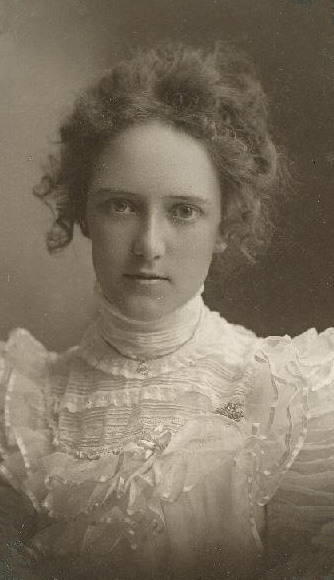 Evangeline Lodge Land (1876-1954) circa 1899